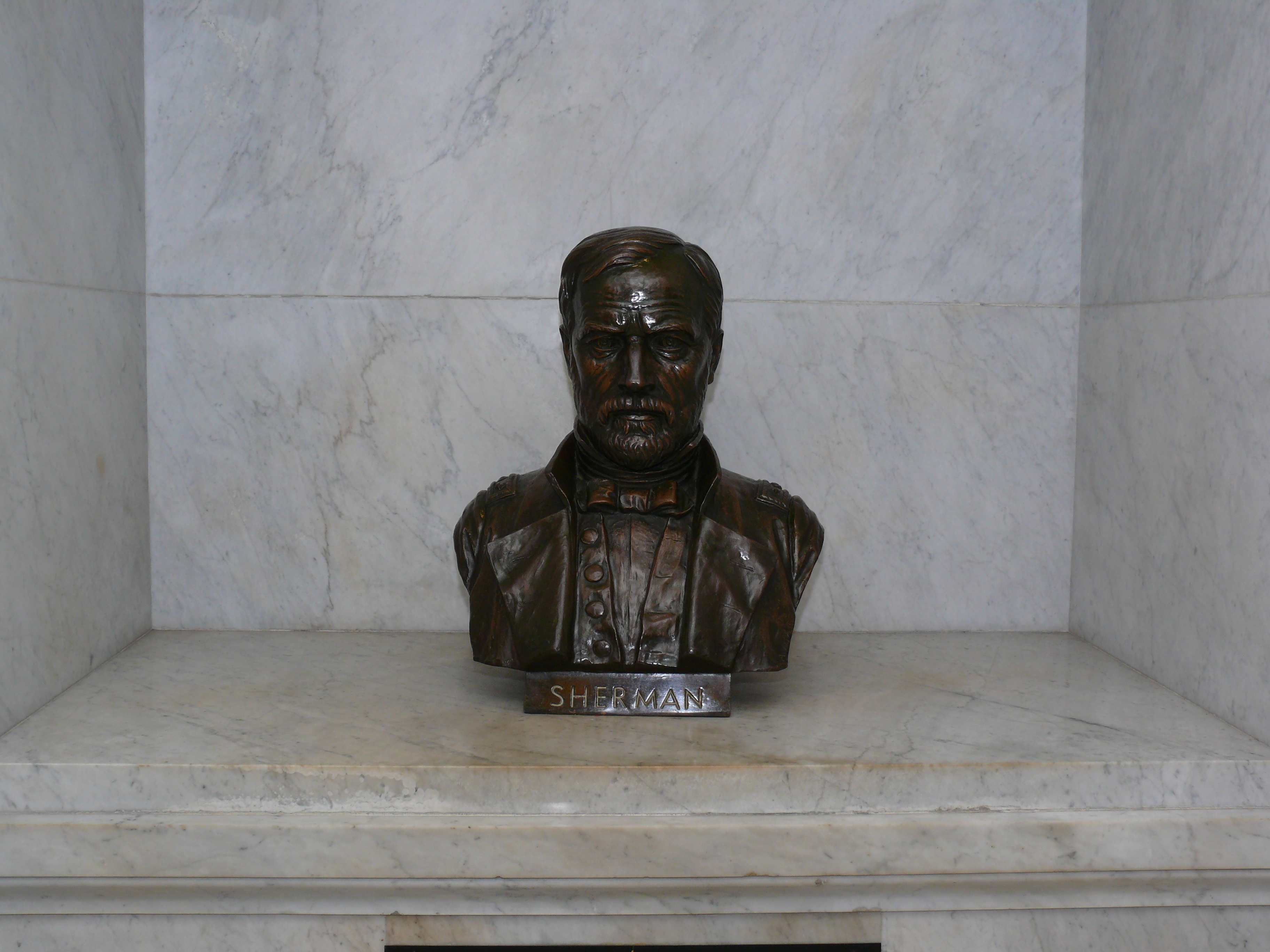 Bust of William Tecumseh Sherman in Grant's Tomb. The bust was added to the tomb in 1938 as part of WPA project.